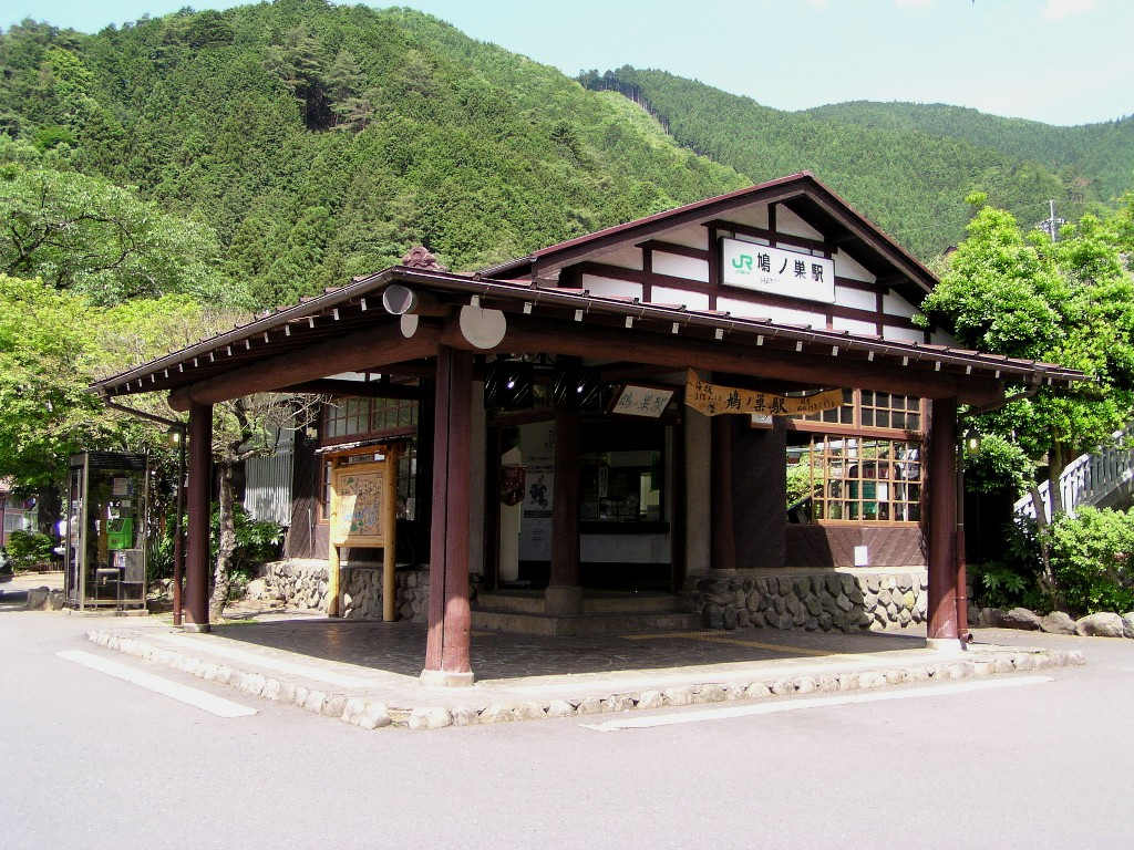 Hatonosu Station in Okutama, Tokyo